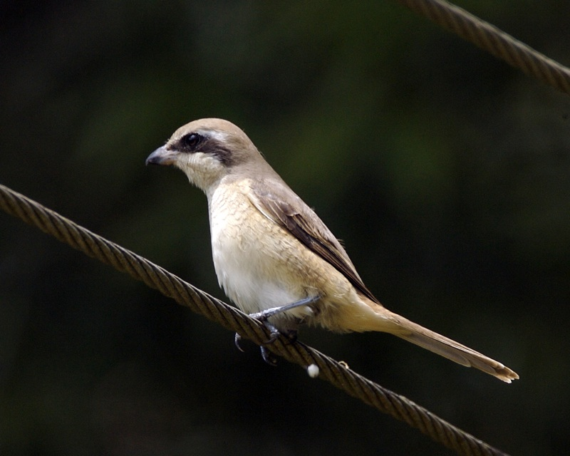 Long-tailed Shrike, juvenile ssp Lanius schach caniceps; location: Thattekad, Kerala, India